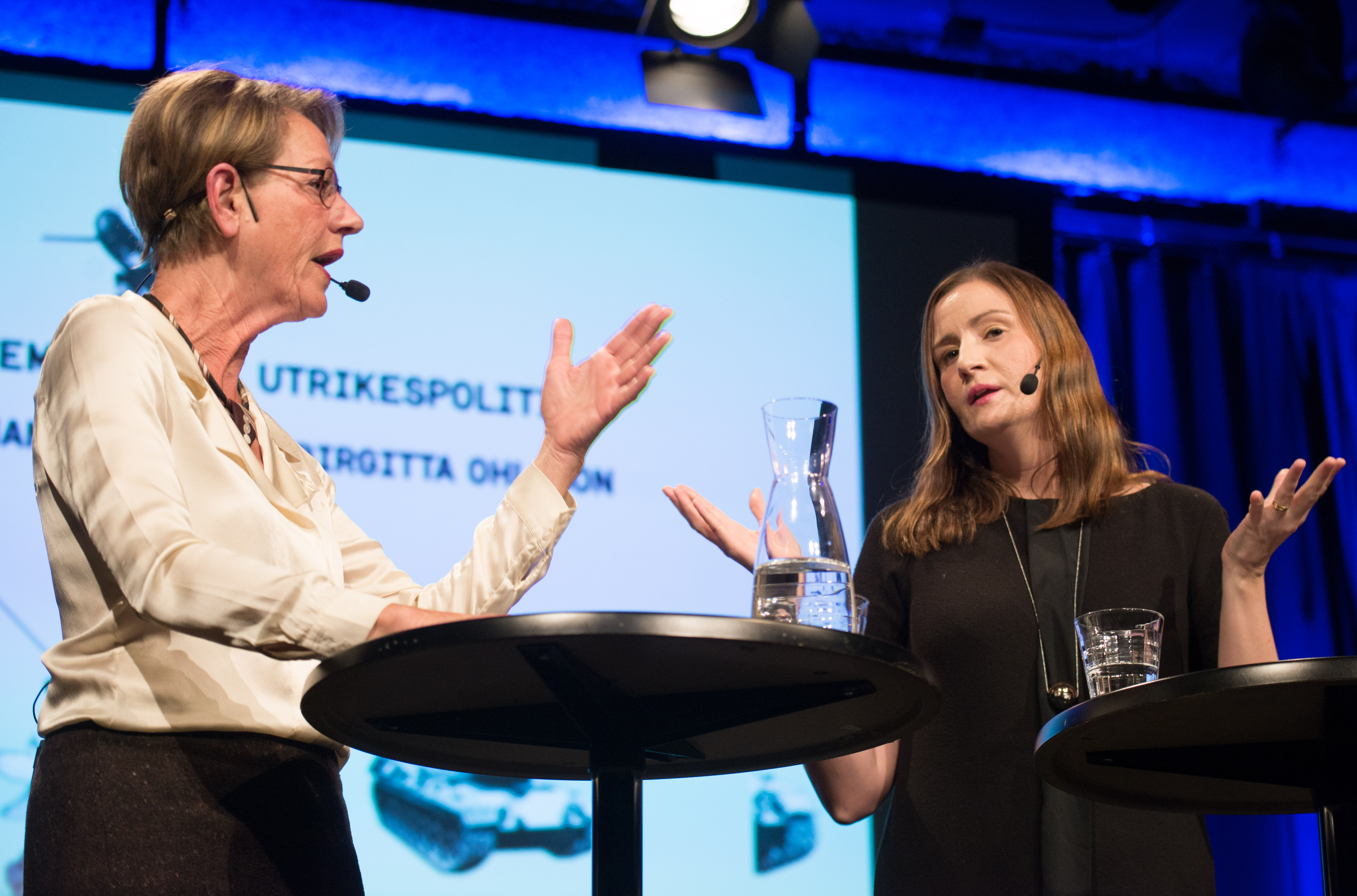 NATO debate at Kulturhuset-Stadsteatern in Stockholm 2015.